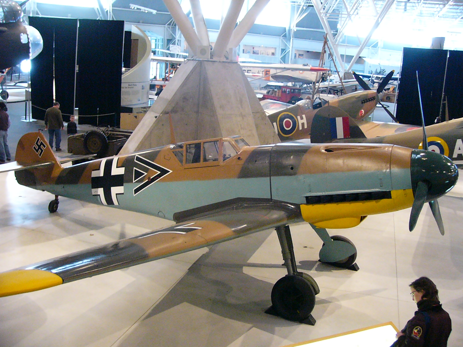 A Messerschmitt Bf 109 F-4 at the Canada Aviation Museum, Ottawa, Ontario, Canada